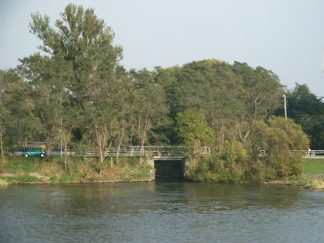 Kan'non Bridge of Barato River. Sapporo, Hokkaido, Japan.